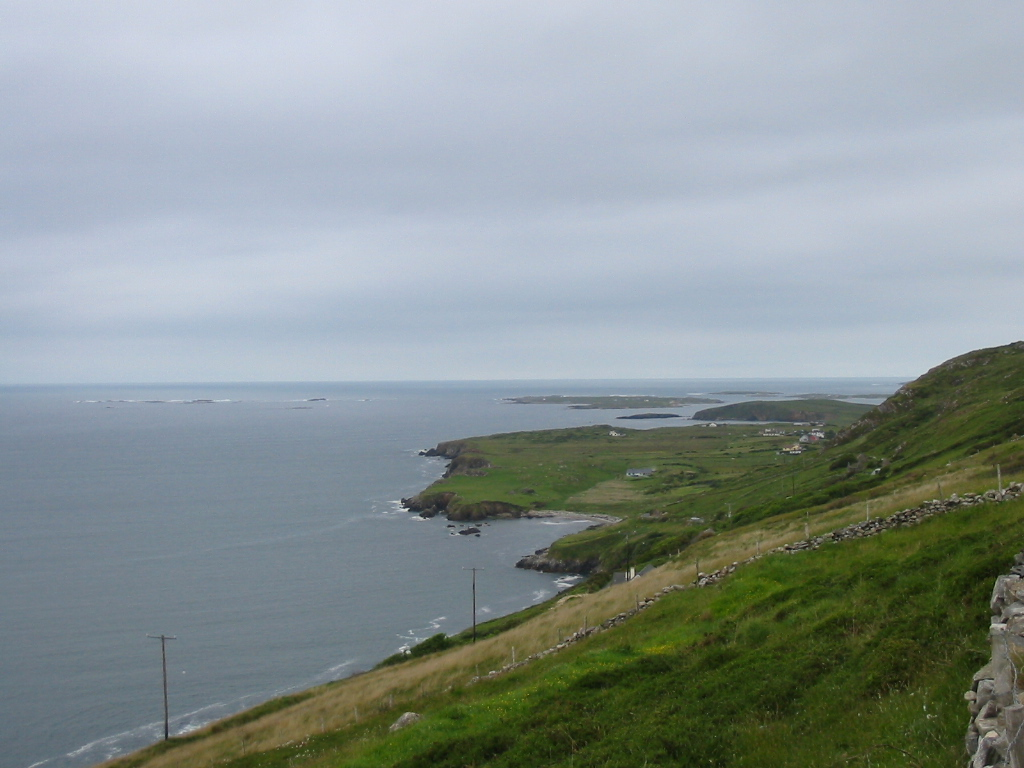 Riding out from Clifden fantastic scenery unfolds. 0088 - 7 June 2004 - County Galway